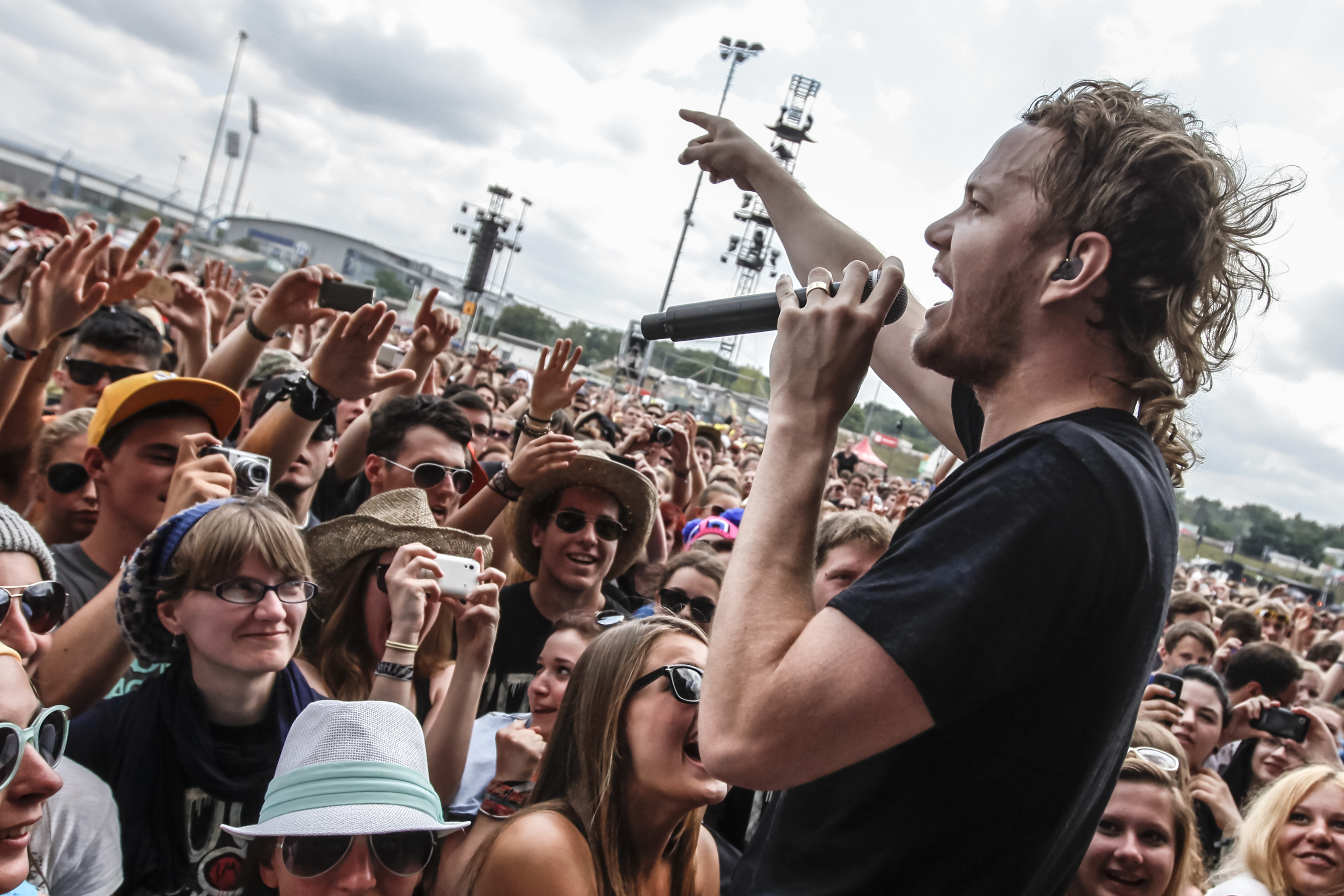 Dan Reynolds of Imagine Dragons at Rock im Park 2013 in Nuremberg, Germany